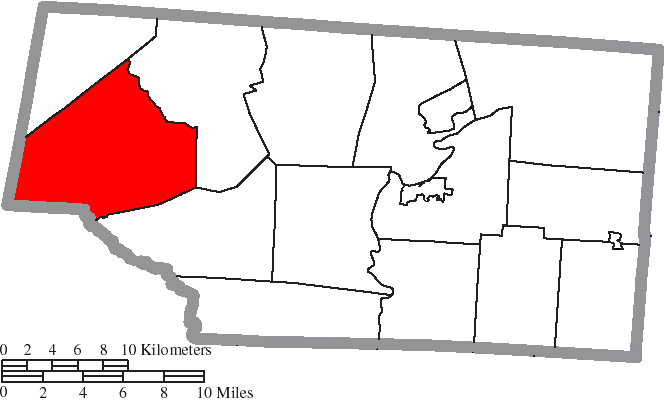 Map of the municipal and township boundaries of Pike County, Ohio, United States, as of the 2000 census, with the location of Mifflin Township highlighted. Township borders are shown only in unincorporated areas in order to differentiate incorporated and unincorporated areas more clearly.